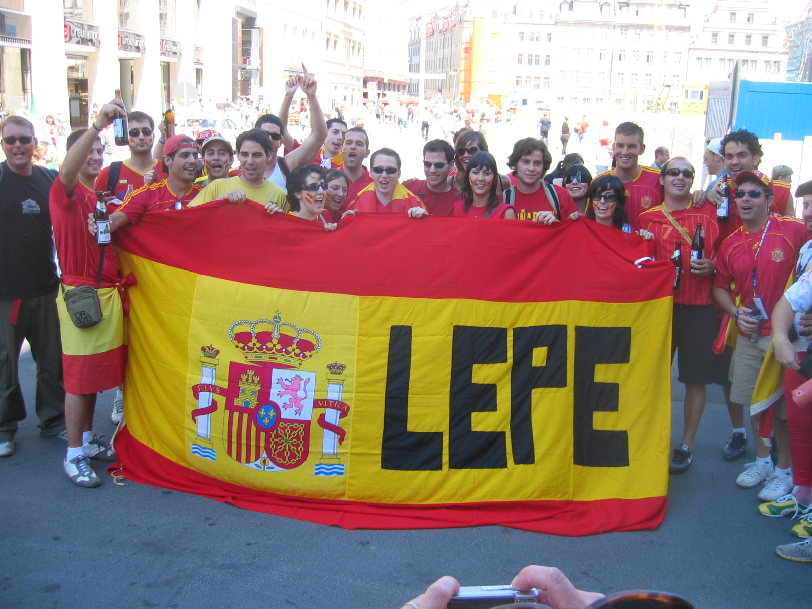 jpvargas comment: "Fun crowd from Lepe. Of all the towns in Spain, I run into a Lepe posse." Photo taken in Leipzig at FIFA World Cup 2006 at the time of the Group H match between Spain national football team and Ukraine national football team. Note the Flag of Spain is defaced with the name of the fans' home city, Lepe. This is a common practice among soccer fans at international (club or country) matches.